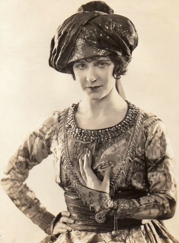 Elsie Ferguson in the American film Footlights (1921) - publicity still (original image damaged, modified and cropped : see source)